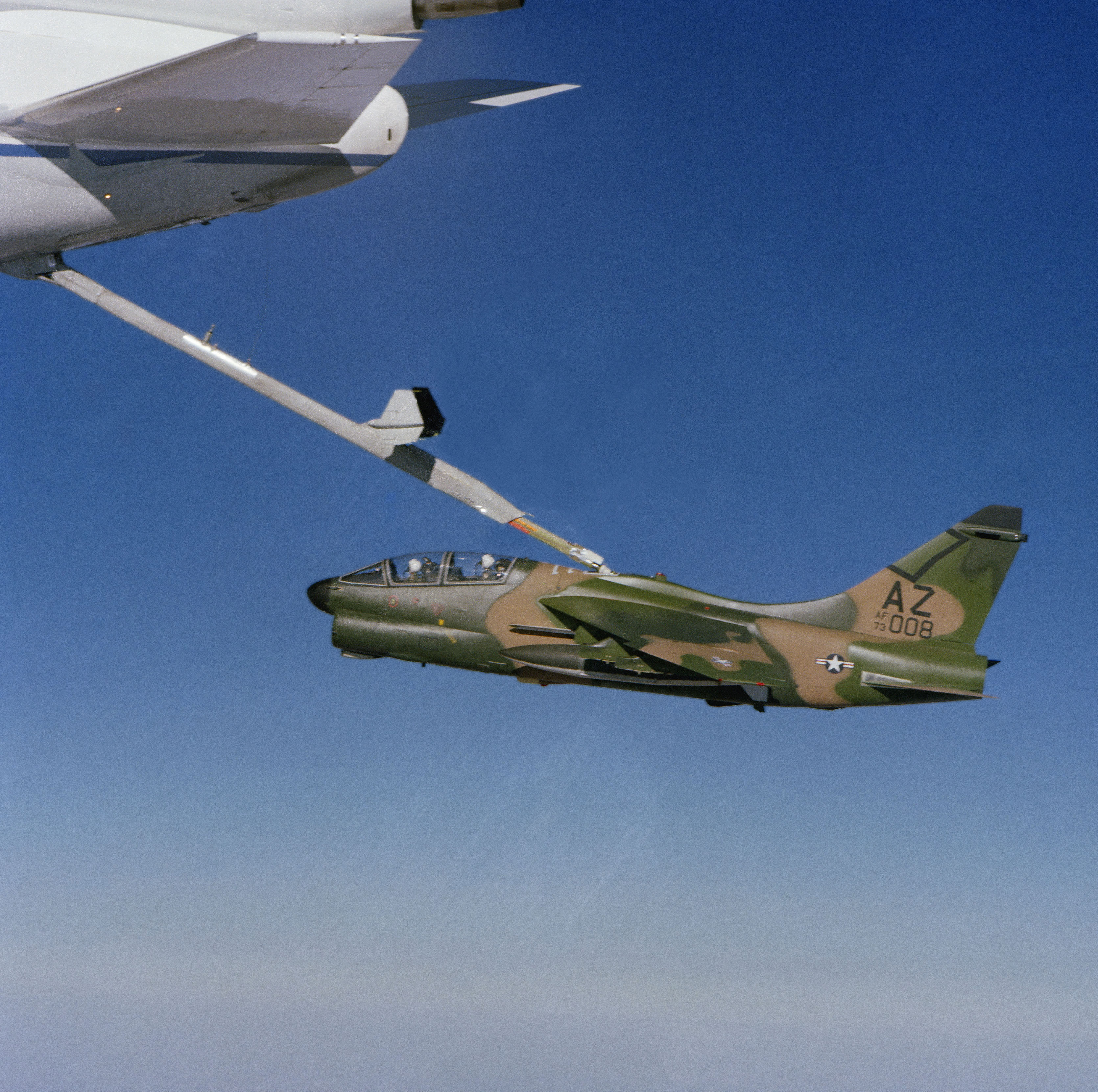 A Vought YA-7K Corsair II (s/n 73-1008) of the 162nd Fighter Wing, Arizona Air National Guard, based at Tucson Internationa Airport (Arizona, USA), is being refueled in flight by a McDonnell Douglas KC-10A Extender aircraft over Edwards Air Force Base (California, USA) on 21 Apr 1982. 1973: Delivered to 355th Tactical Fighter Wing/354th TFS, Davis-Monthan AFB, AZ (c/n D-404) Transferred to 354th Tactical Fighter Wing/355th TFS, Myrtle Beach AFB, SC, 1973 Transferred to 186th Tactical Fighter Squadron, OK Air National Guard, 1977 Removed from operational service, flown to LTV at Hensley Field (Naval Air Station Dallas) for modification to YA-7K, 1979 Delivered as A-7K to to 4450th Tactical Group/4451st TS, Nellis AFB, NV, 1981 Transferred to 152d Tactical Fighter Squadron, AZ Air National Guard, 1989 Transferred to 198th Tactical Fighter Squadron, PR Air National Guard, 1990 Transferred to AMARC as AE0033 Jun 19, 1991 Disposition: 15-JUN-98 / To Fritz Enterprises, Taylor, MI. (Actually to HVF West yard, Tucson). Scrapped.